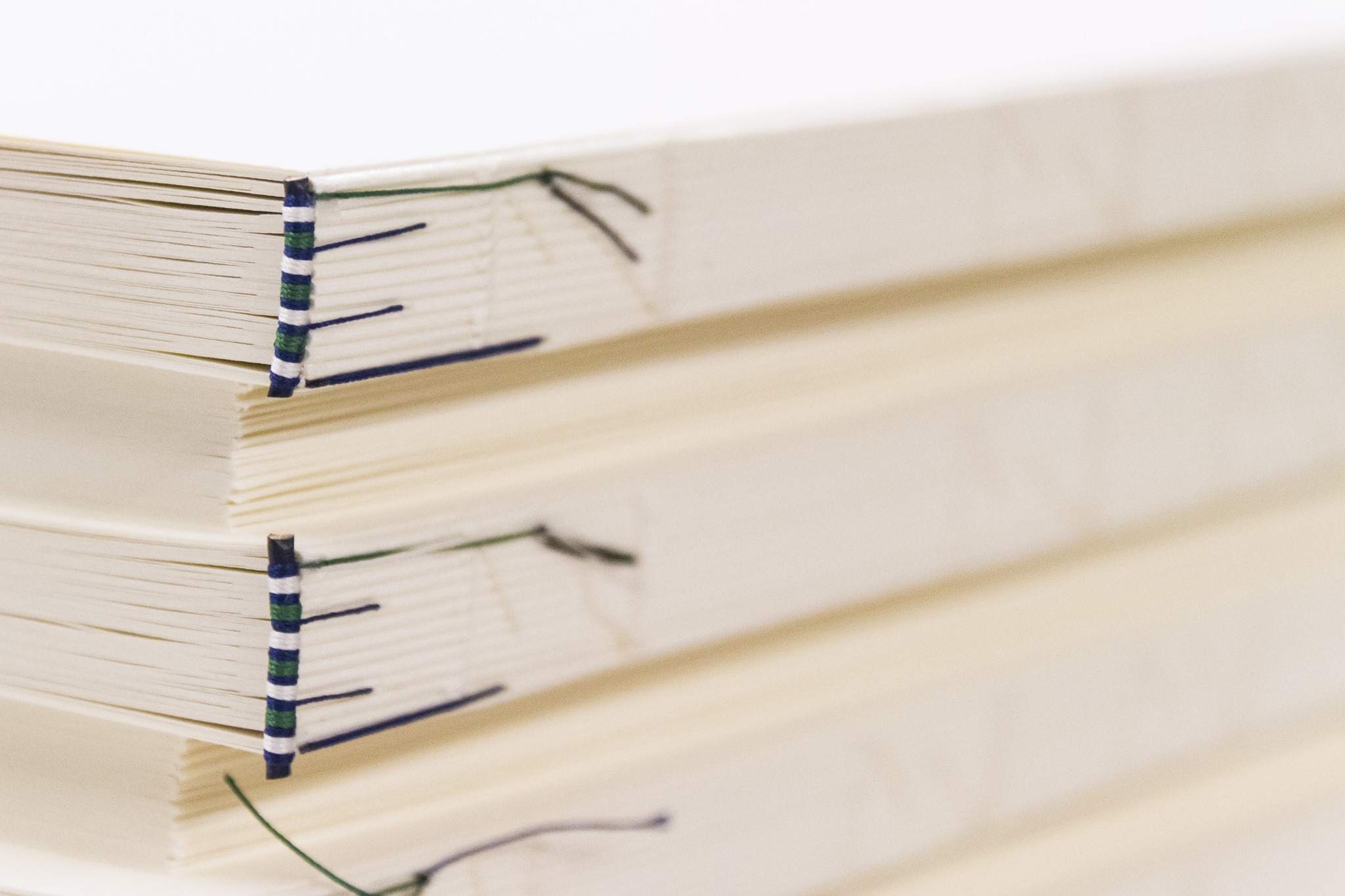 Hand sewn headband